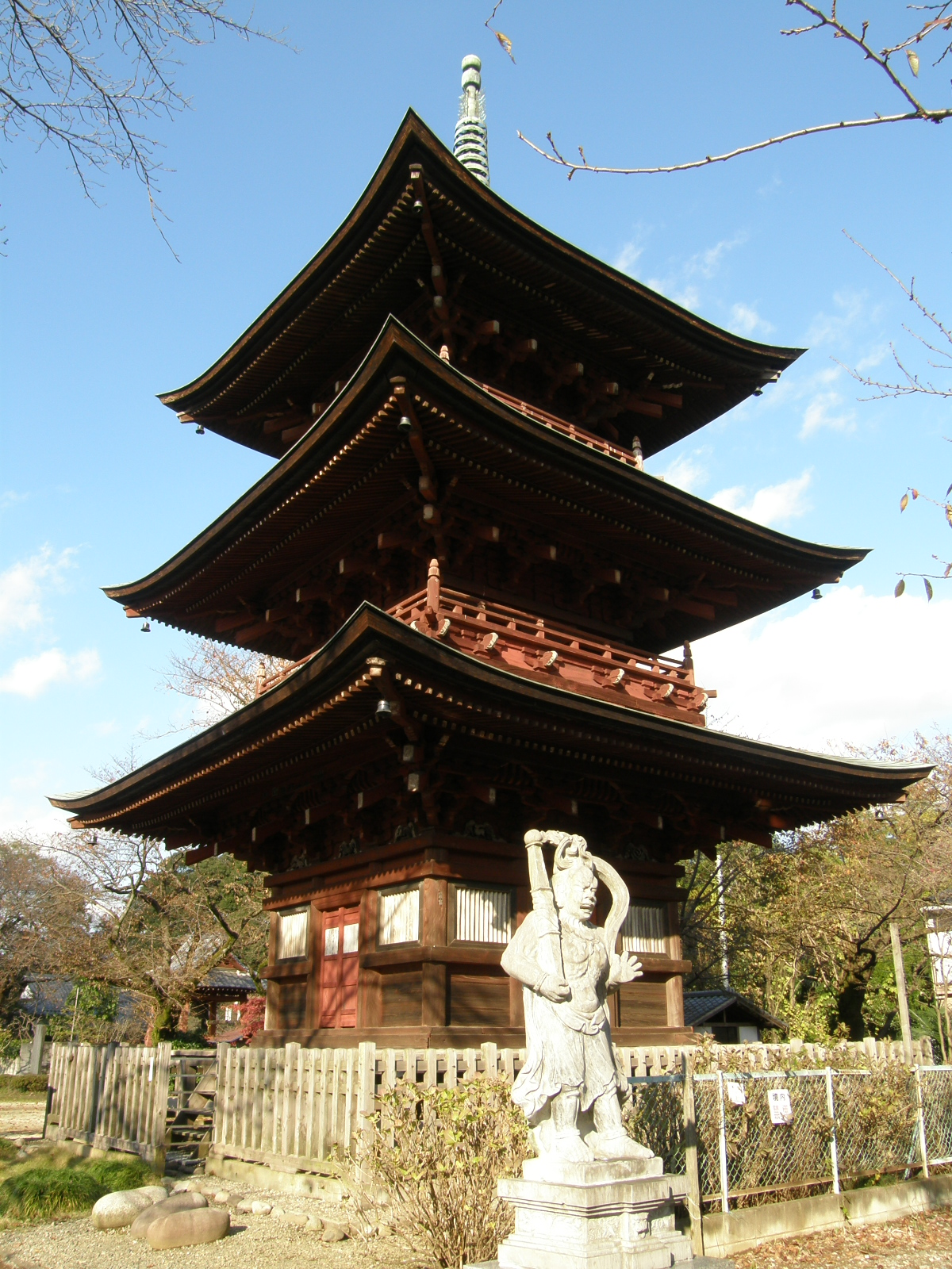 The three-storied Pagoda at Saifuku-ji temple in Kawaguchi-shi, Saitama Prefecture.